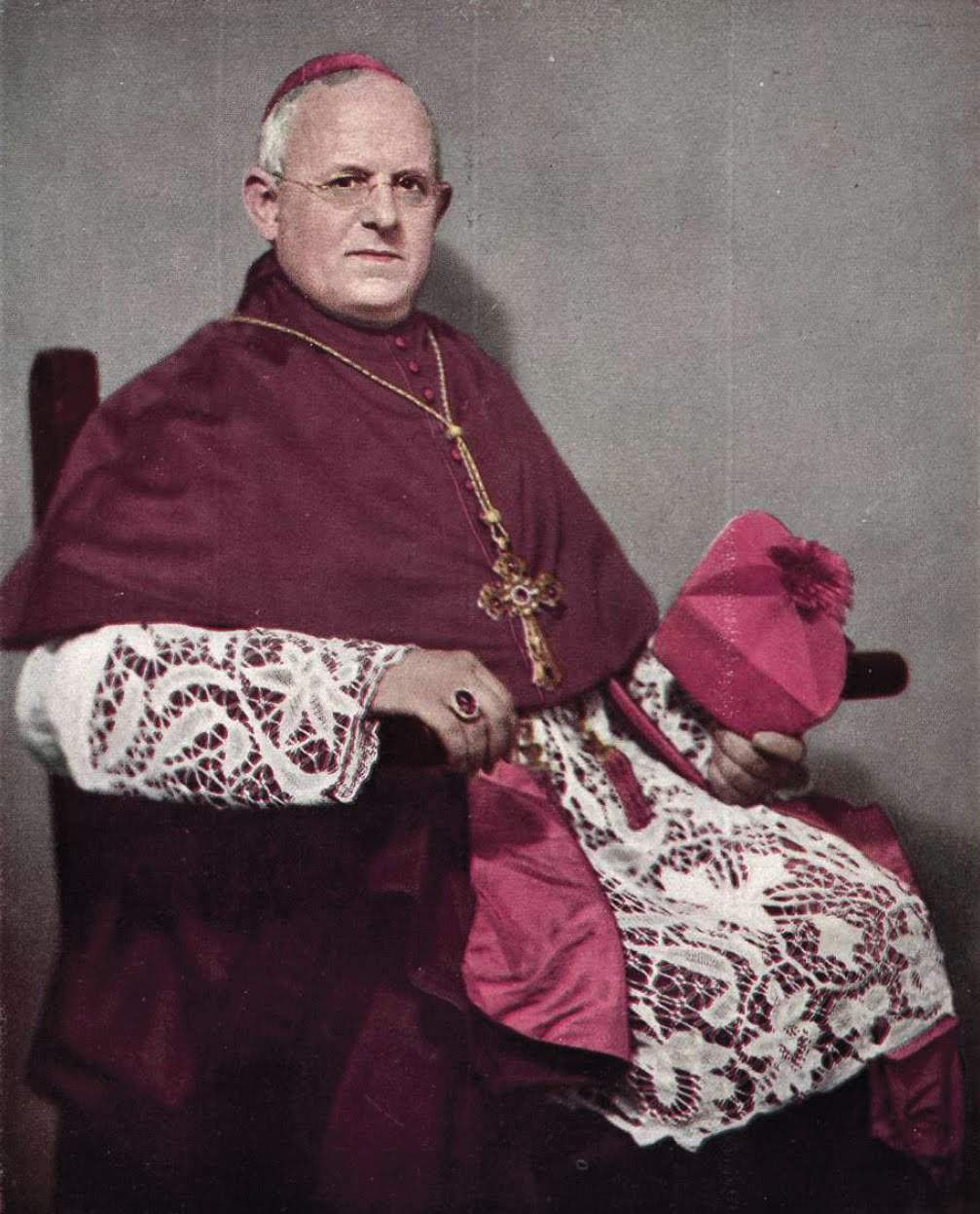 Obispo Santiago Luis Copello.